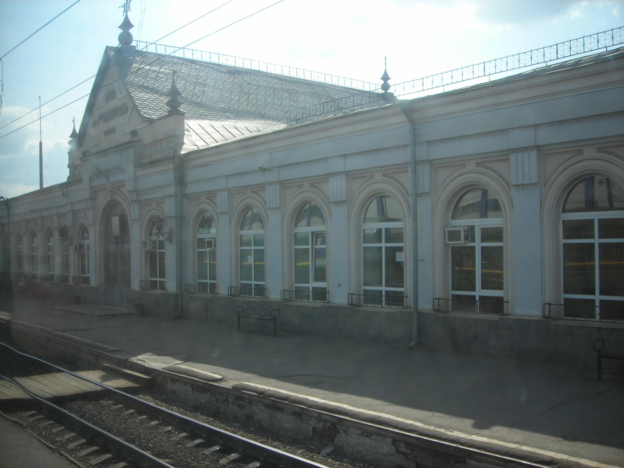 Railway station in Rossosh, Russia